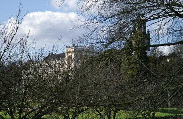 Trentham Hall. The building was demolished, apart from the west front (photo) and stable block.